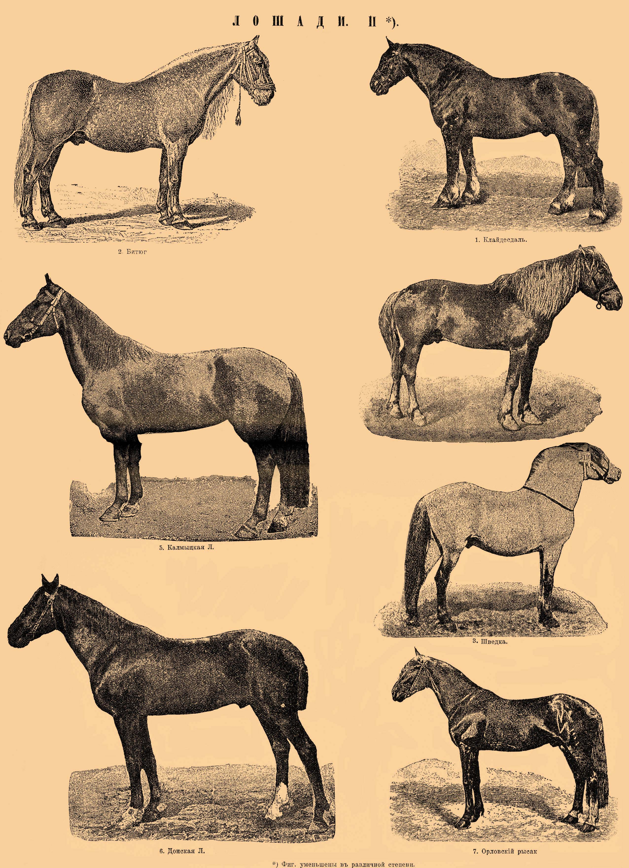 Illustration from Brockhaus and Efron Encyclopedic Dictionary (1890—1907)